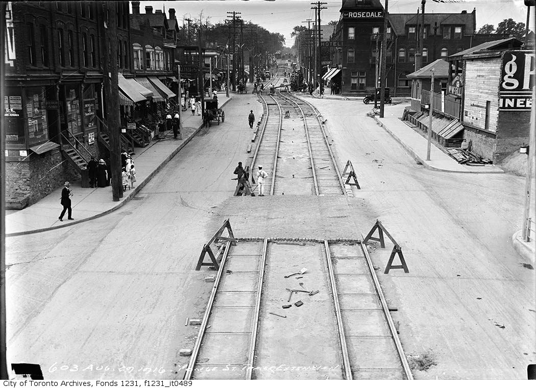 Yonge Street track extension looking north to Shaftesbury Avenue